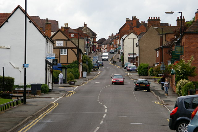 Picture of Coleshill High Street looking south.